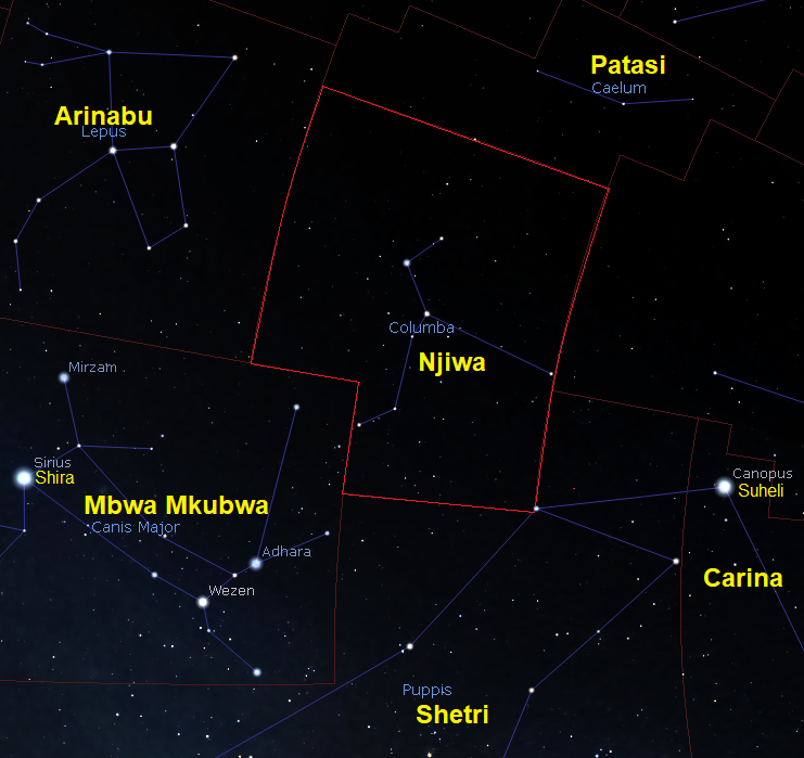 Constellation Columba as seen from Tanzania, swahili labelled Kiswahili: Kundinyota ya Njiwa jinsi inavyoonekana Dar es Salaam